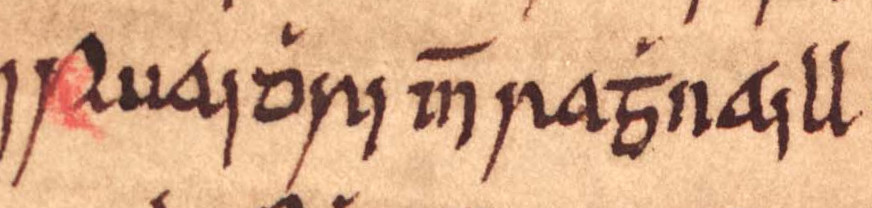 An excerpt from folio 63r of Oxford Bodleian Library MS Rawlinson B 489 (the Annals of Ulster). The excerpt concerns Ruaidhrí mac Raghnaill (died 1247?).